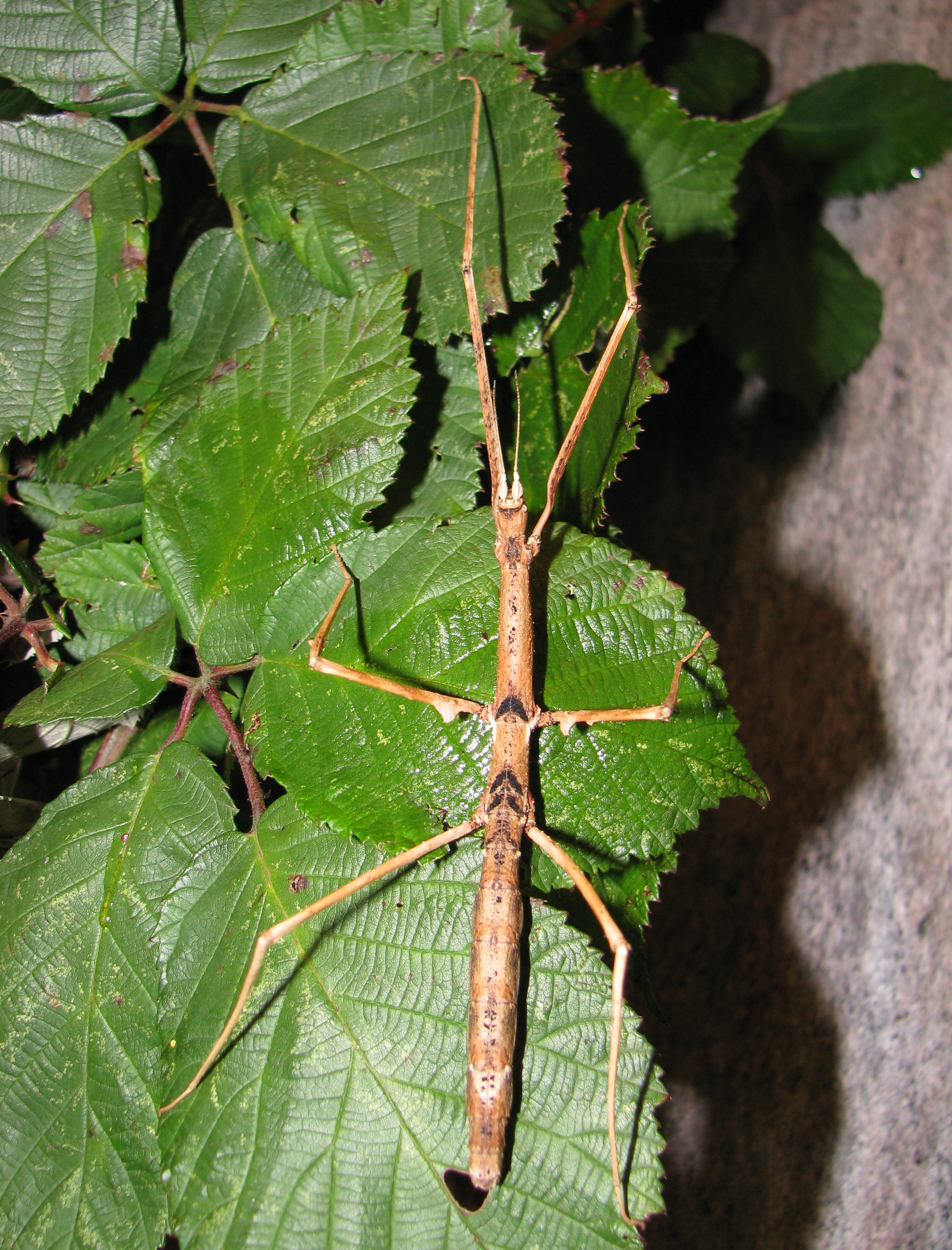 Zompro's Stick Insect (Parapachymorpha zomproi ) female